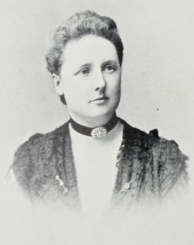 A photo of Ethel Pedley from a 1st Edition printing of Dot and the Kangaroo.